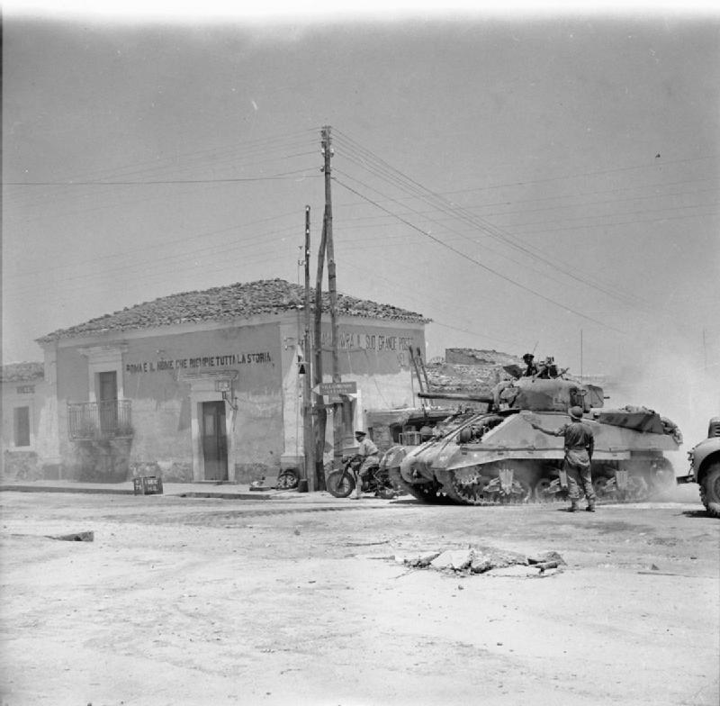 The British Army in Sicily 1943 A Sherman tank passing through Villasmundo, 13 July 1943.